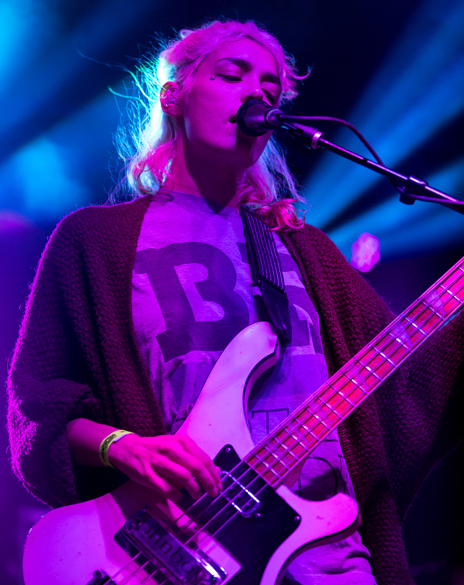 Jenny Lee Lindberg performing bass guitar with Warpaint at UTOPiAfest in Utopia, Texas, United States on September 13, 2014.